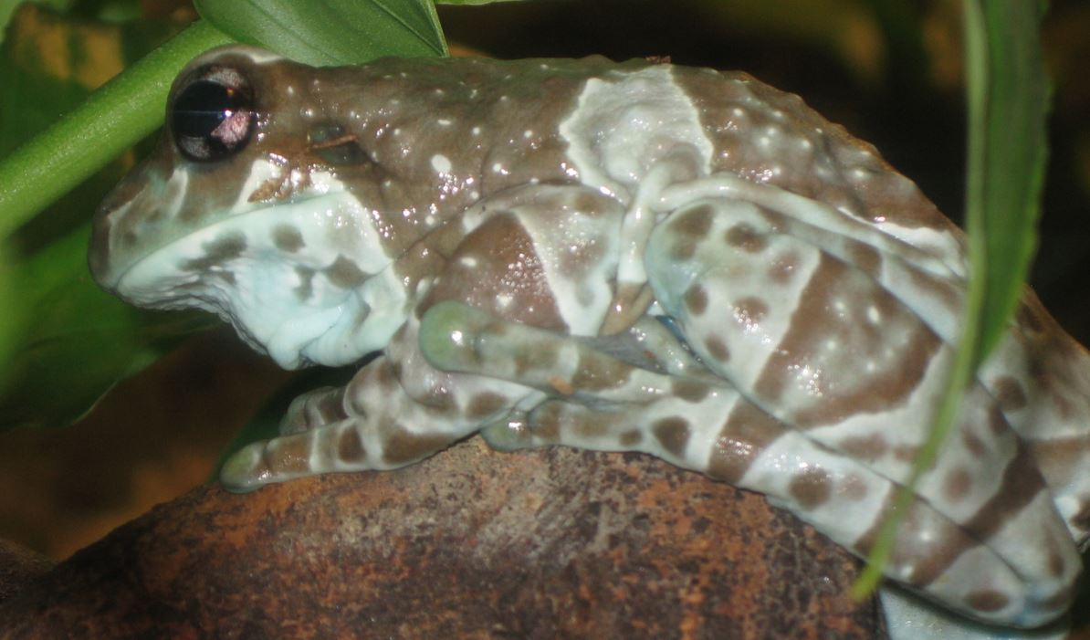 A close up image of the mission golden eyed tree frog or amazon milk frog.